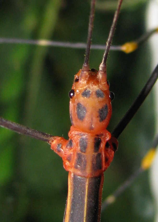 portrait of adult female of Oreophoetes peruana peruana